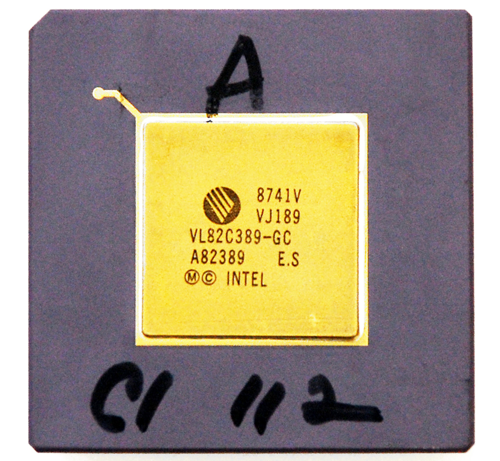 VLSI (Intel) 82389 Multibus II Controller